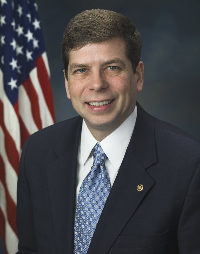 Mark Begich, member of the United States Senate from Alaska.